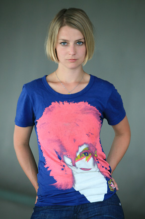 Maja Beckmann